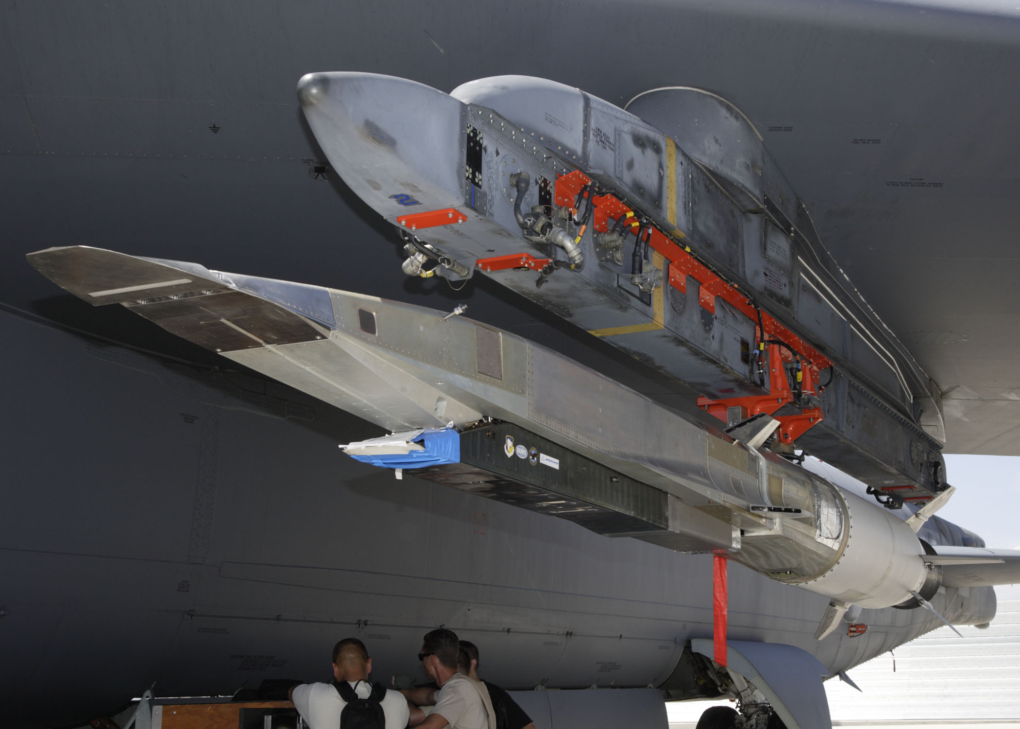 The X-51A WaveRider hypersonic flight test vehicle was uploaded to an Air Force Flight Test Center B-52 for fit testing at Edwards Air Force Base on July 17. Two B-52 flights, one captive carriage and one dress rehearsal, are planned this fall prior to the X-51's first Mach 6 plus scramjet flight over the Pacific Ocean scheduled in December. The Air Force Research Laboratory, DARPA, Pratt & Whitney Rocketdyne, and Boeing are partnering on the X-51A technology demonstrator program.